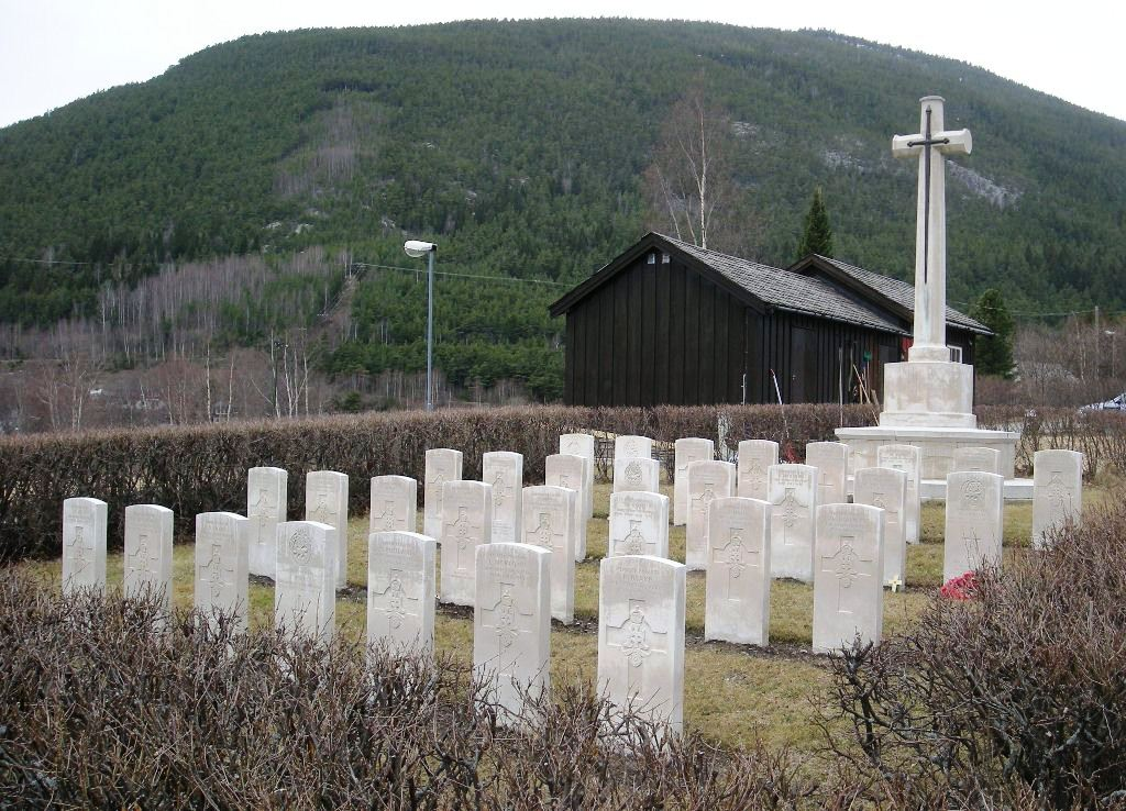 Commonwealth War Graves at Nord-Sel church